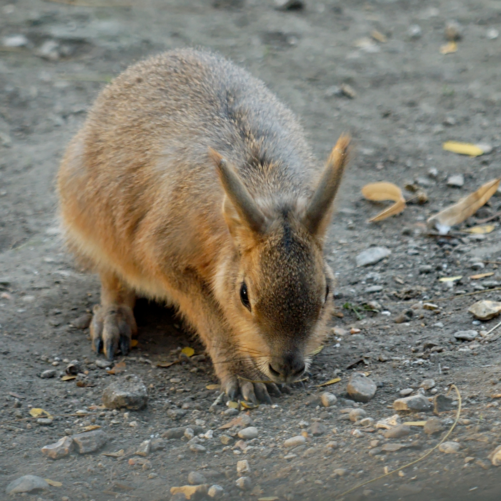 Young mara (Dolichotis patagonum) looking for food. From the zoological garden of the Jardin des Plantes in Paris.